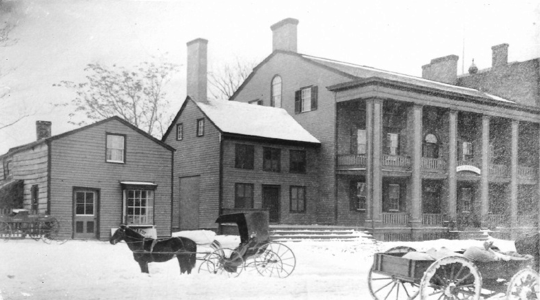 St. James Hotel, Port Richmond, Staten Island, New York, in the 19th century. (Staten Island Historical Society)